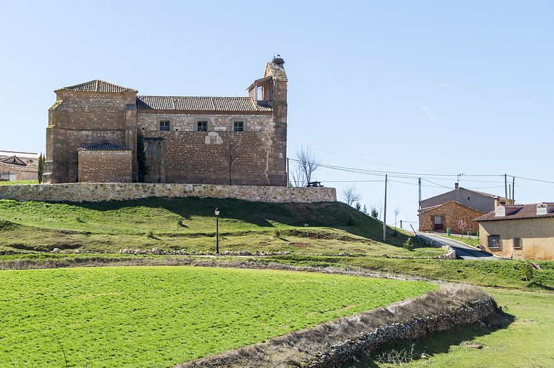 Iglesia de Mazagatos